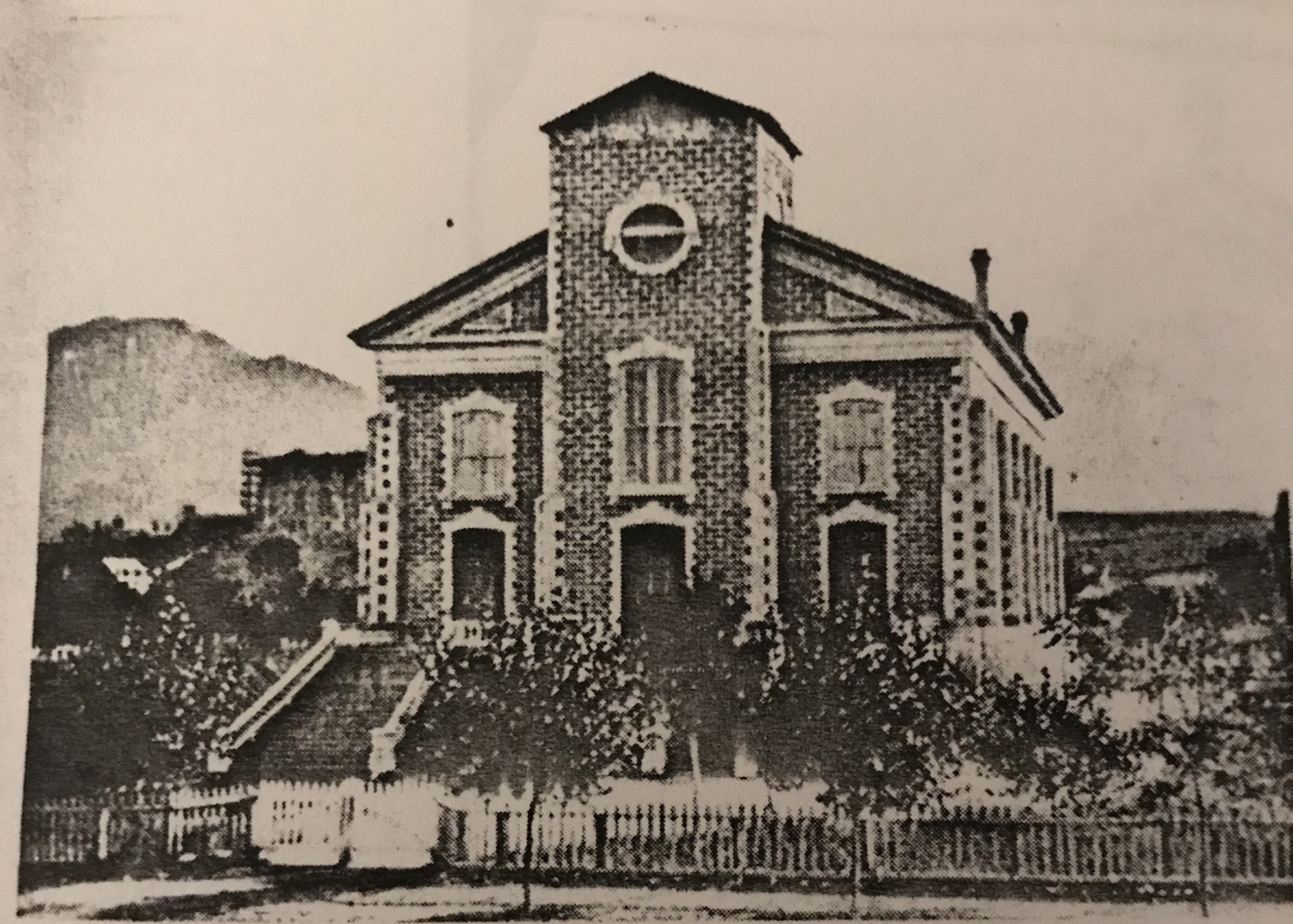 View from Logan’s Main Street looking east toward the Logan Temple, visible on the hill behind and to the immediate left of the tabernacle